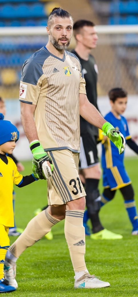 Ilya Abayev with FC Rostov before the game against FC Amkar Perm.